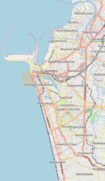 Map of Colombo municipality, Sri Lanka. This map of Colombo was created from OpenStreetMap project data, collected by the community. This map may be incomplete, and may contain errors. Don't rely solely on it for navigation.